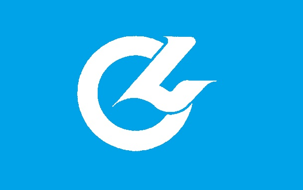 Flag of Shinchi Fukushima chapter